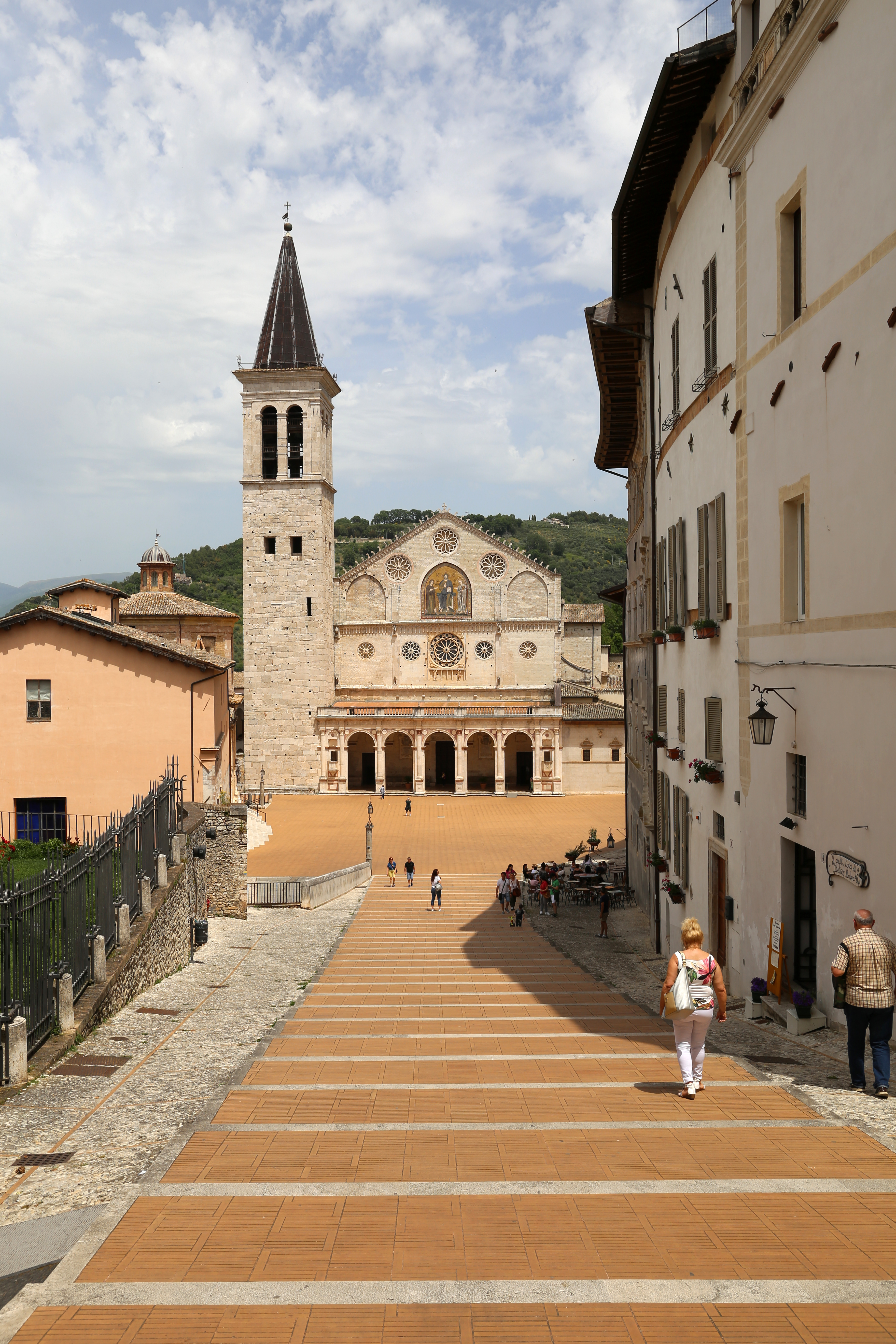 Duomo (Spoleto) - Facade